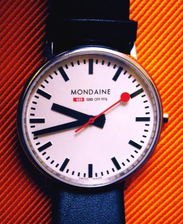 Mondaine watch, model 30332 Photo by User:Tournesol